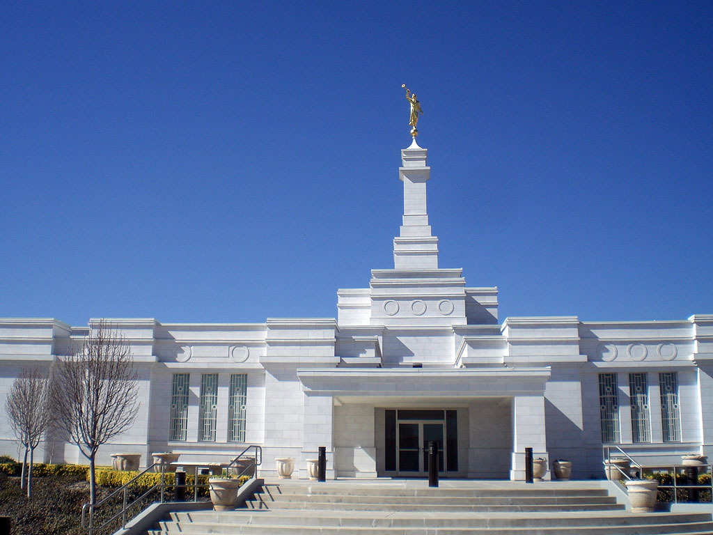 The Ciudad Juárez México Temple of The Church of Jesus Christ of Latter-day Saints.